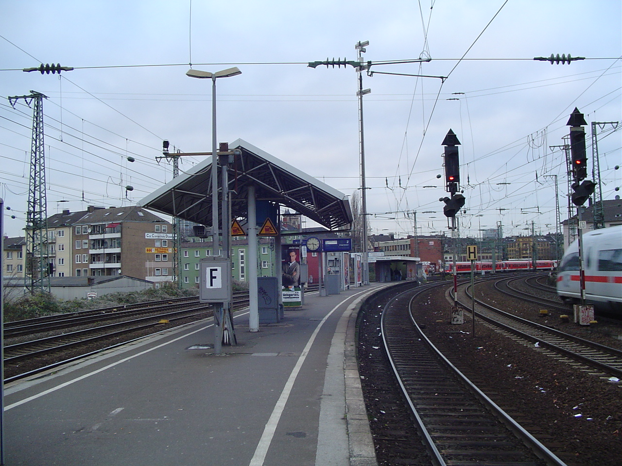 Düsseldorf Volksgarten S-Bahn stop, Germany